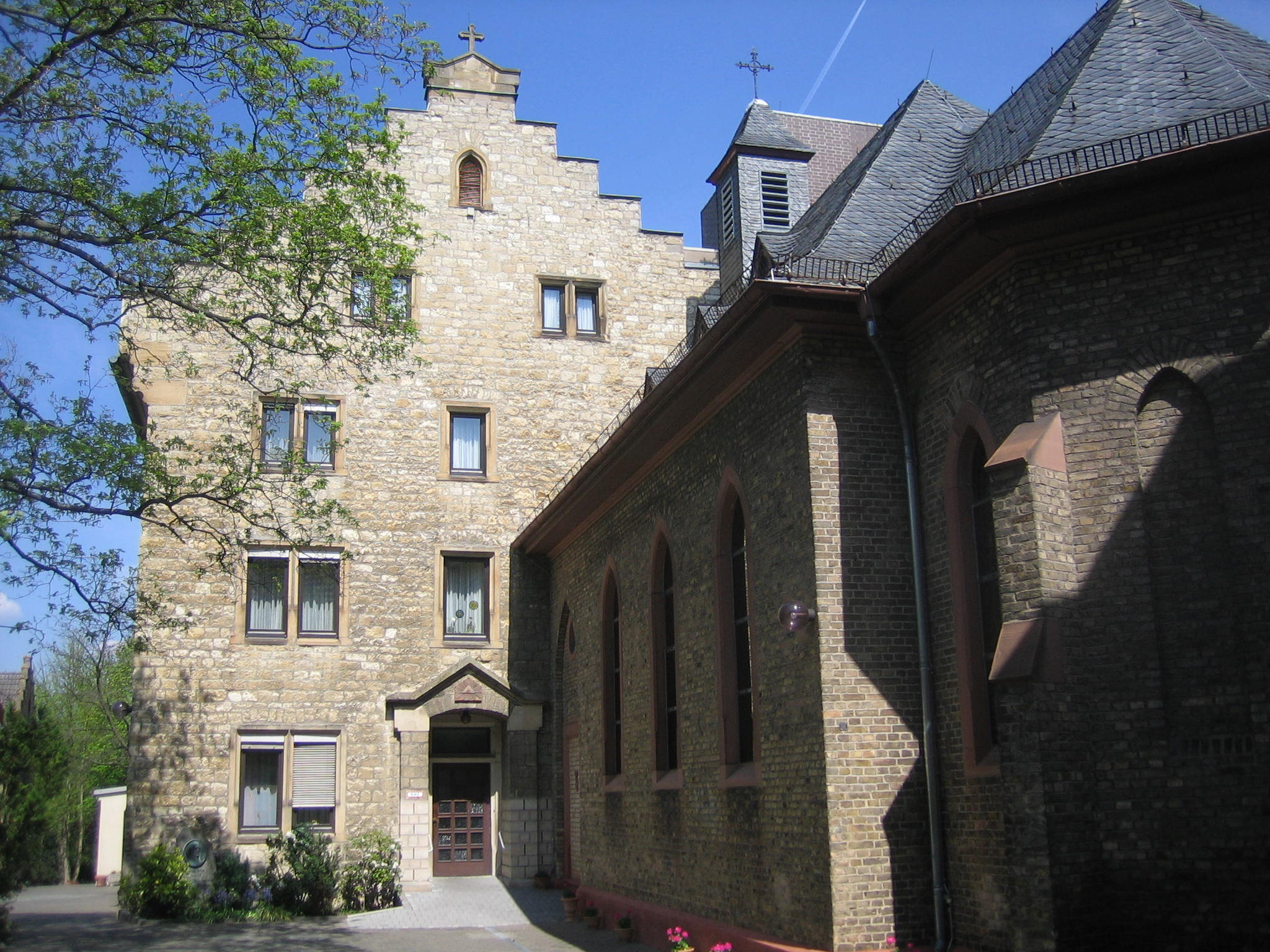 mother house of the Congregation of the Sisters of Divine Providence